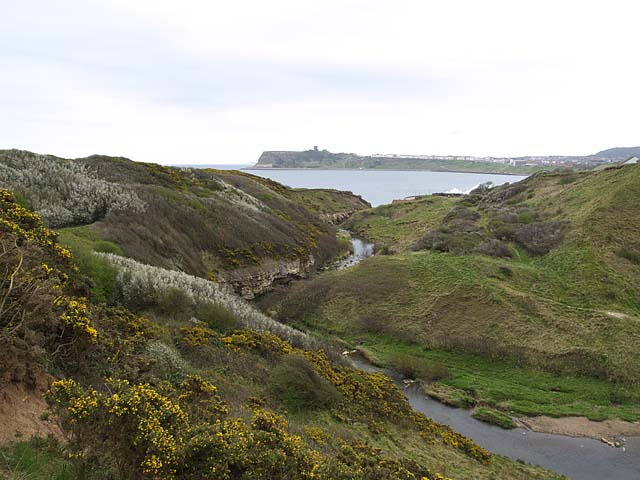 Scalby Beck reaches the sea Looking towards Scarborough Castle from Scalby Ness. The course of the River Derwent until it was diverted inland by the last ice age.